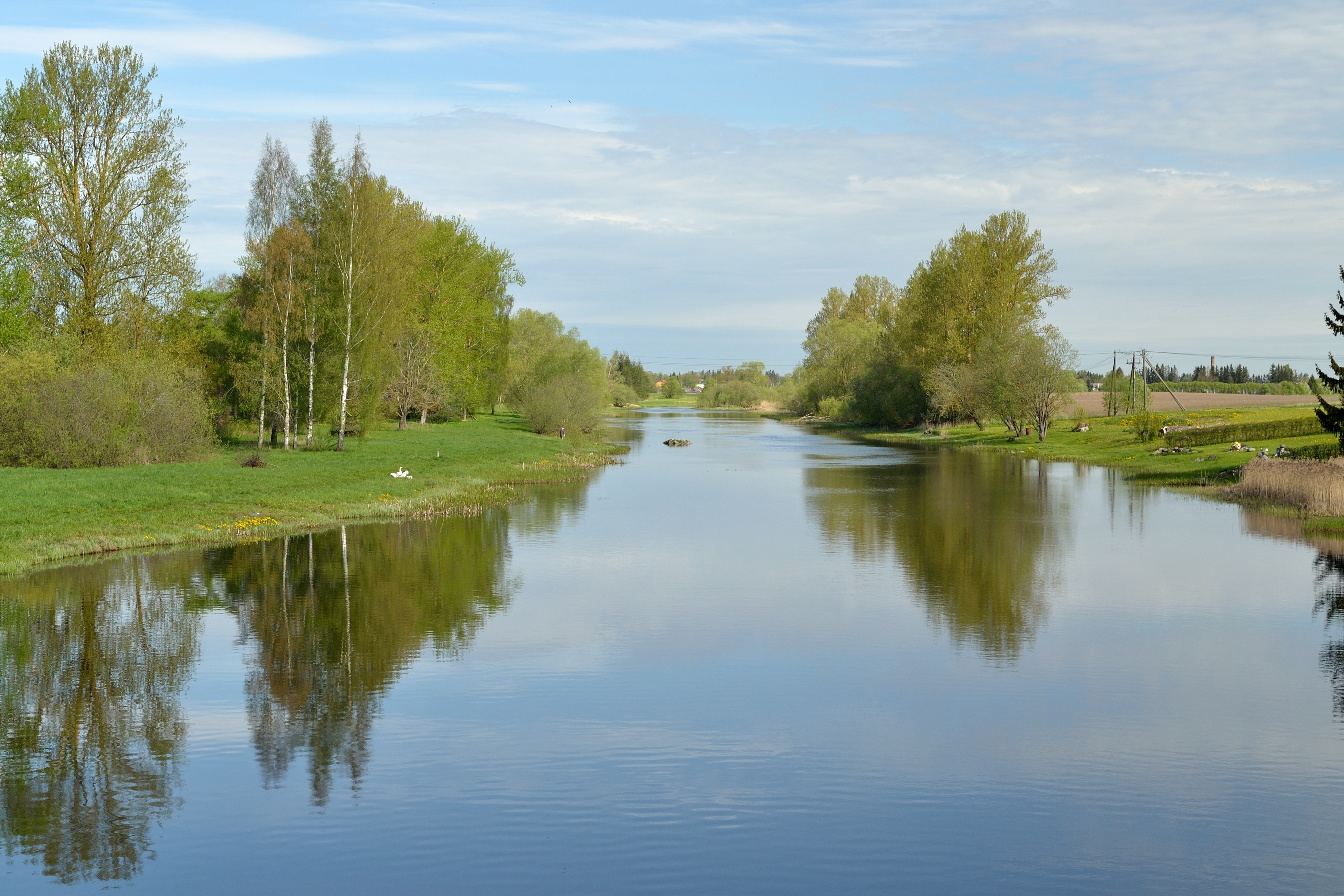 Pedja river in Jõgeva